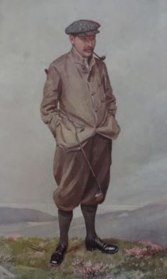 A 1906 caricature of Robert Maxwell by Leslie Ward that appeared in Vanity Fair magazine.